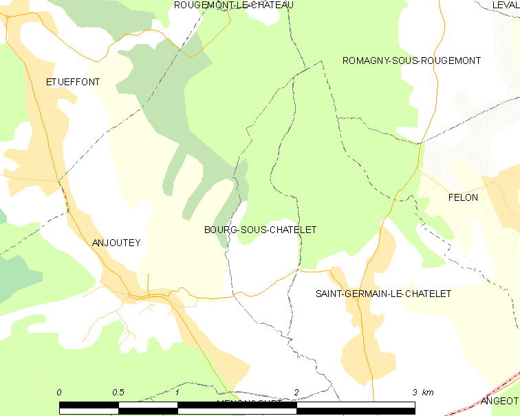 Map of French municipality Bourg-sous-Châtelet